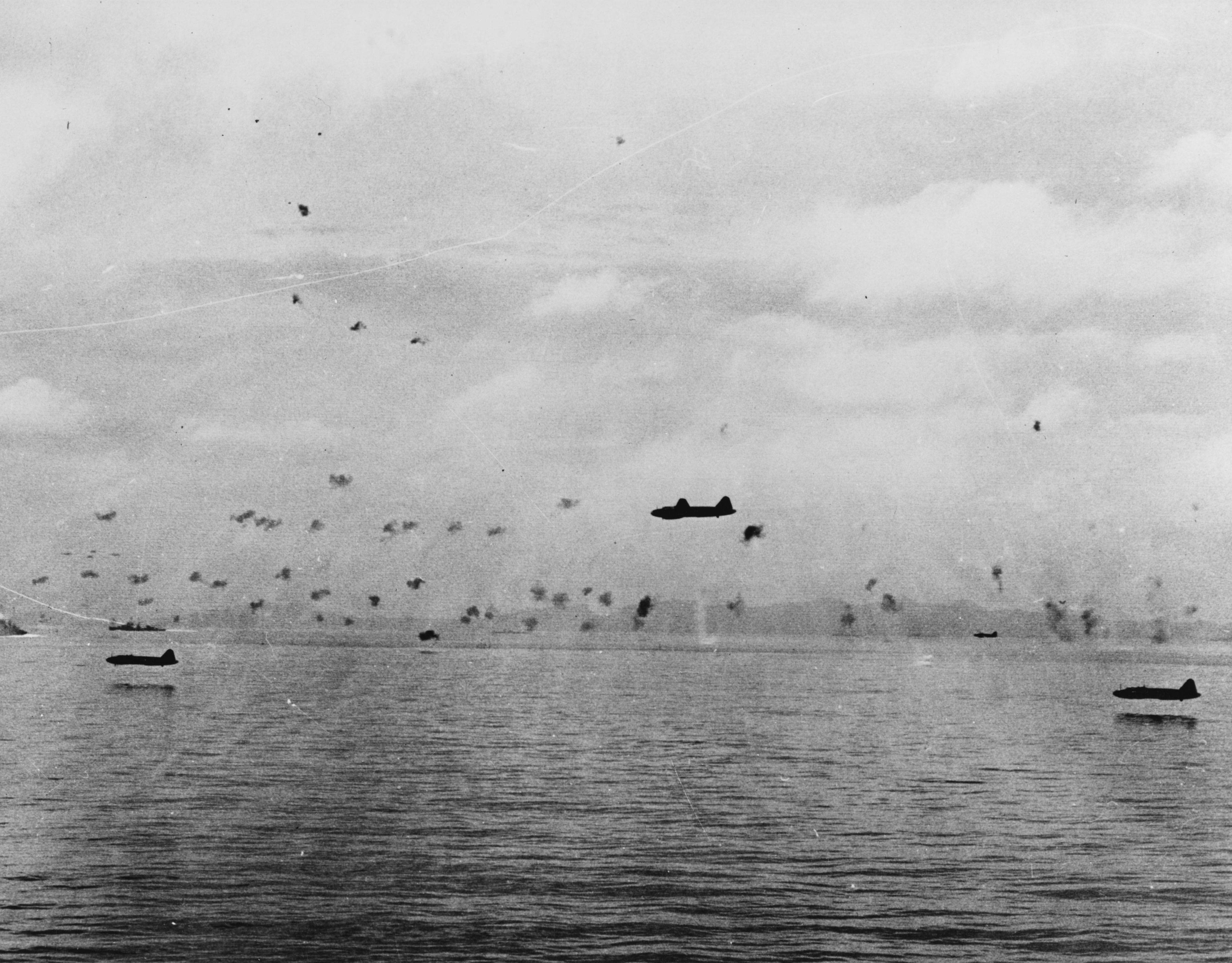 Japanese Navy Type 1 land attack planes (Mitsubishi G4M1 "Betty") fly low through anti-aircraft gunfire during a torpedo attack on U.S. Navy ships maneuvering between Guadalcanal and Tulagi in the morning of 8 August 1942. Note that these planes are being flown without bomb-bay doors as they were carrying torpedoes. Of 23 attacking bombers, 17 were shot down, and one later crashed. They hit one destroyer and one aircraft crashed into a transport.